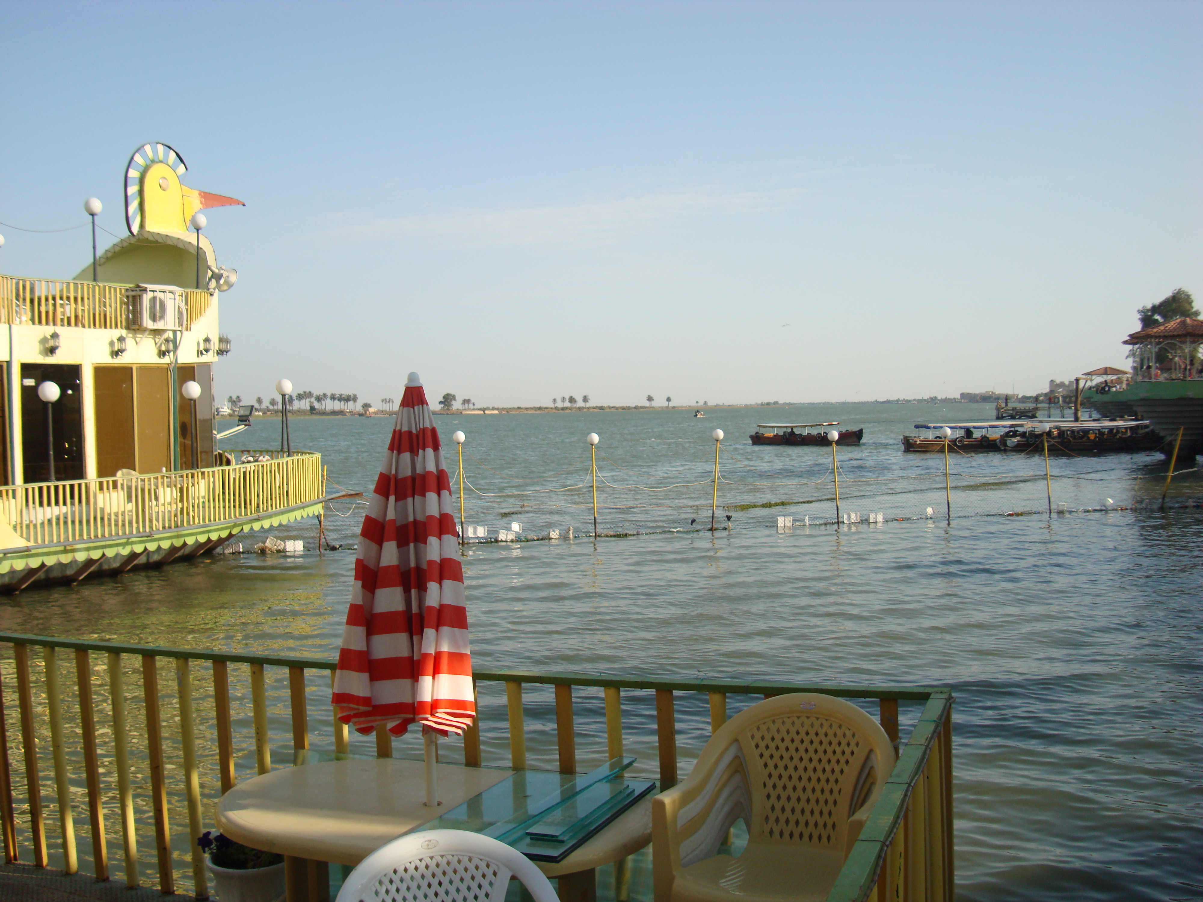 basrah